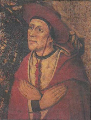 Cardinal Alonso de Borja (future Pope Callixtus III)